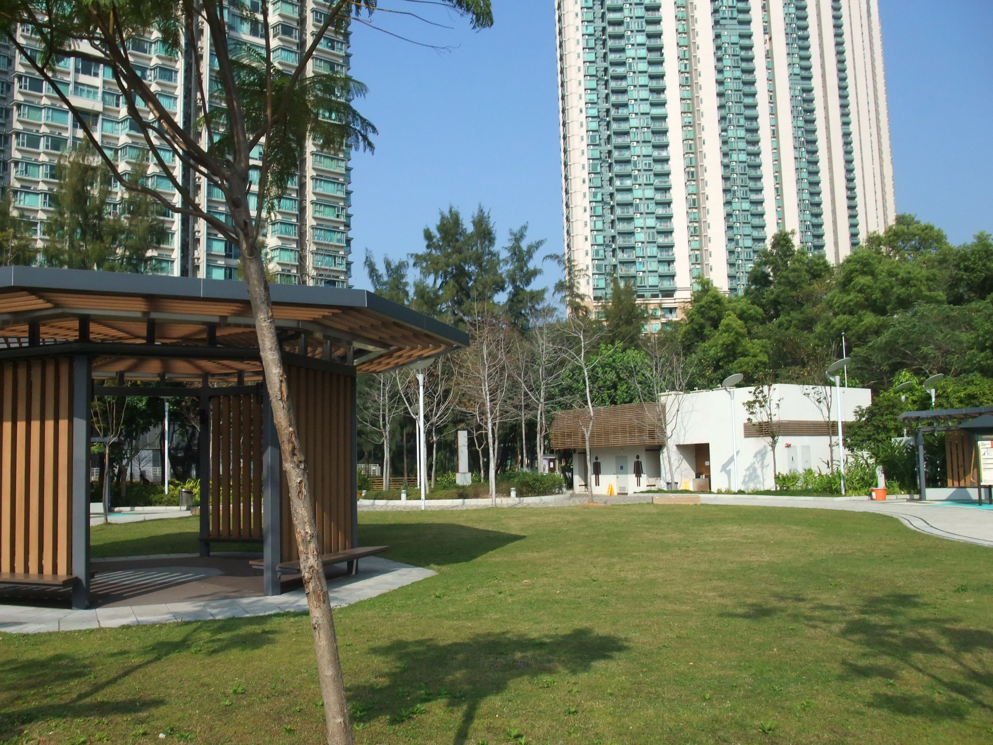 Tai Chi Garden in the Tung Chung North Park, Tung Chung, Hong Kong.